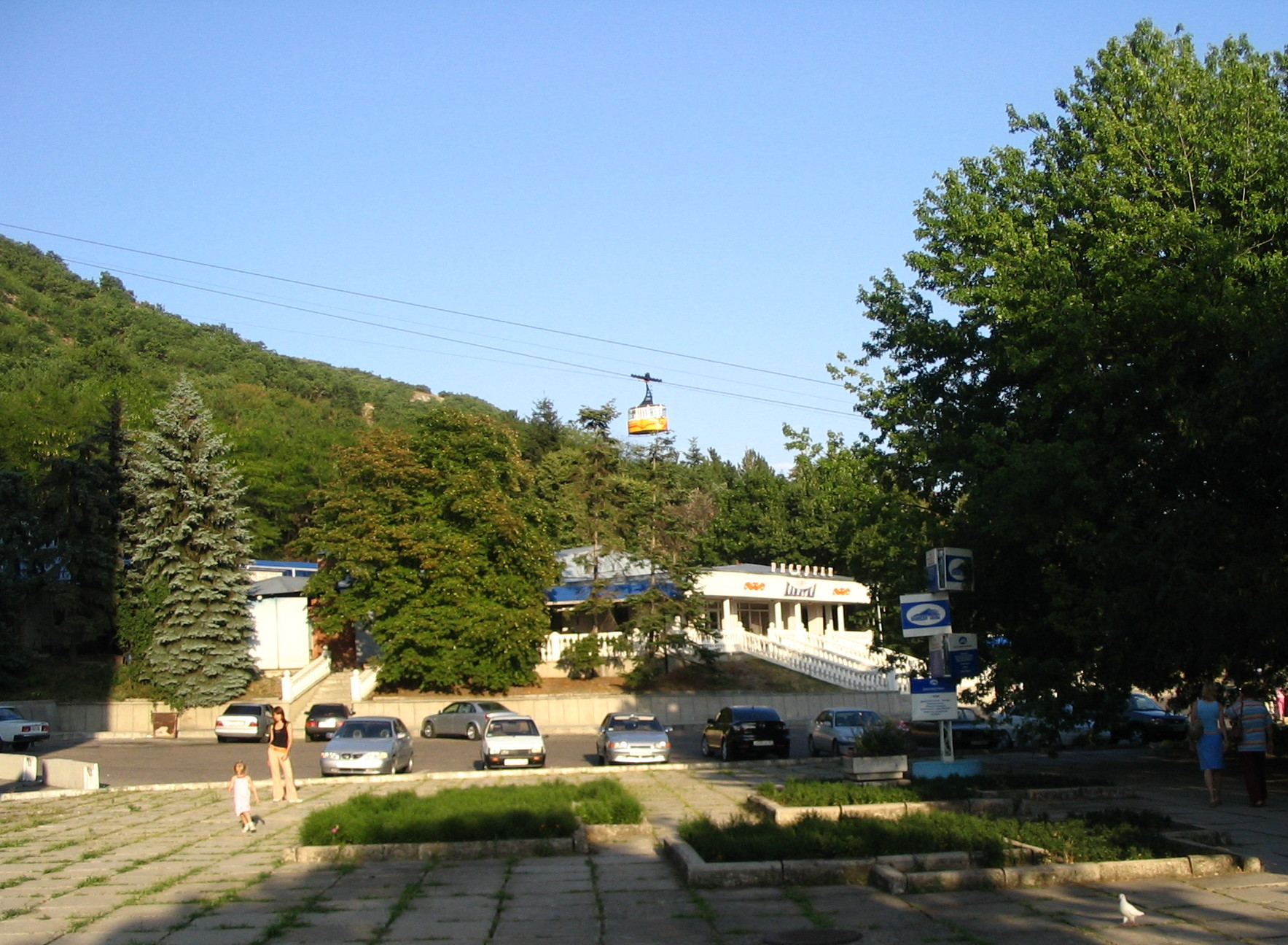 Cableways in Pytigorsk